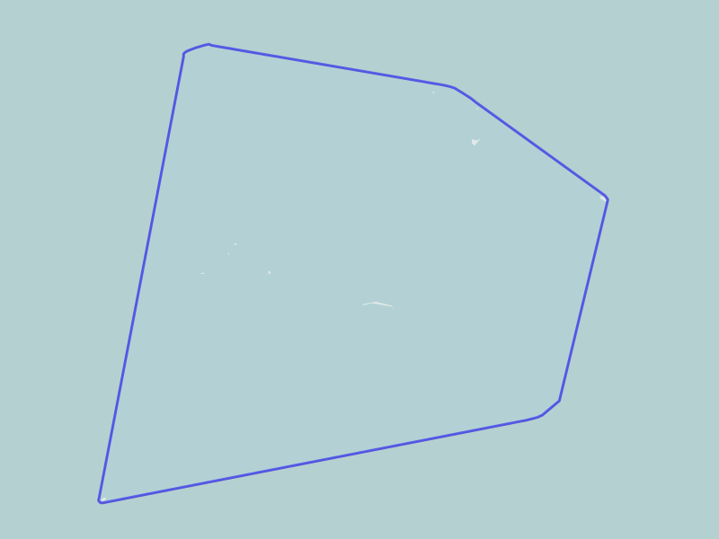 Maritime baseline of China (People's Republic) - Paracel Islands. Announced in May 15, 1996.